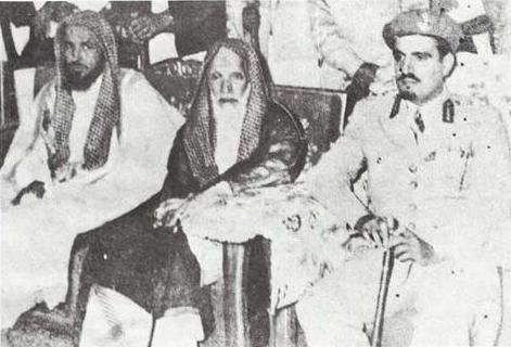 Abd ar-Rahman ibn Nasir as-Sa'di and Mishaal bin Abdulaziz in 1953.